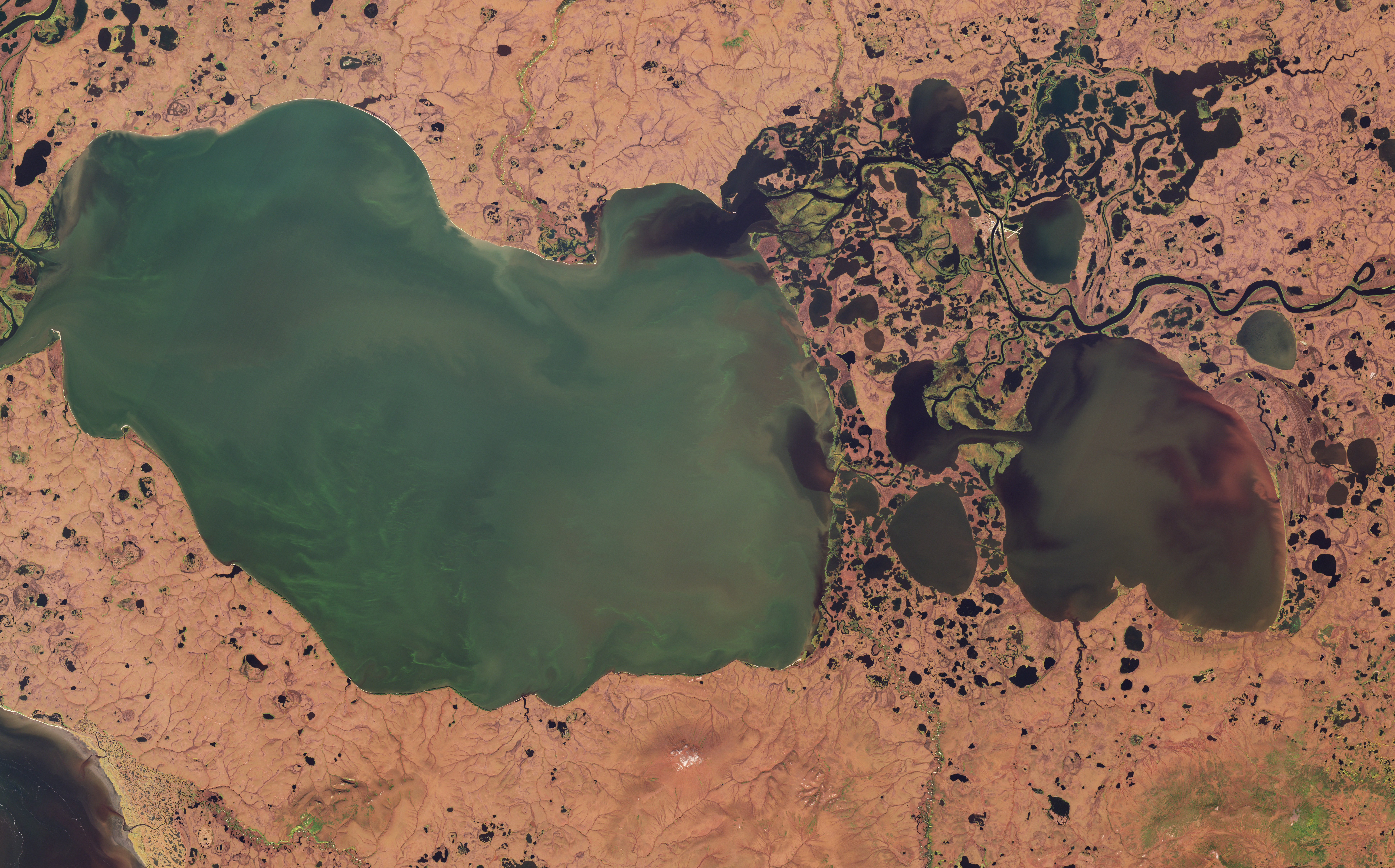 Date: 2018-09-08 Sensor: MSI on Sentinel-2A Resolution: 10m RGB Composites: True color, Band 4-3-2